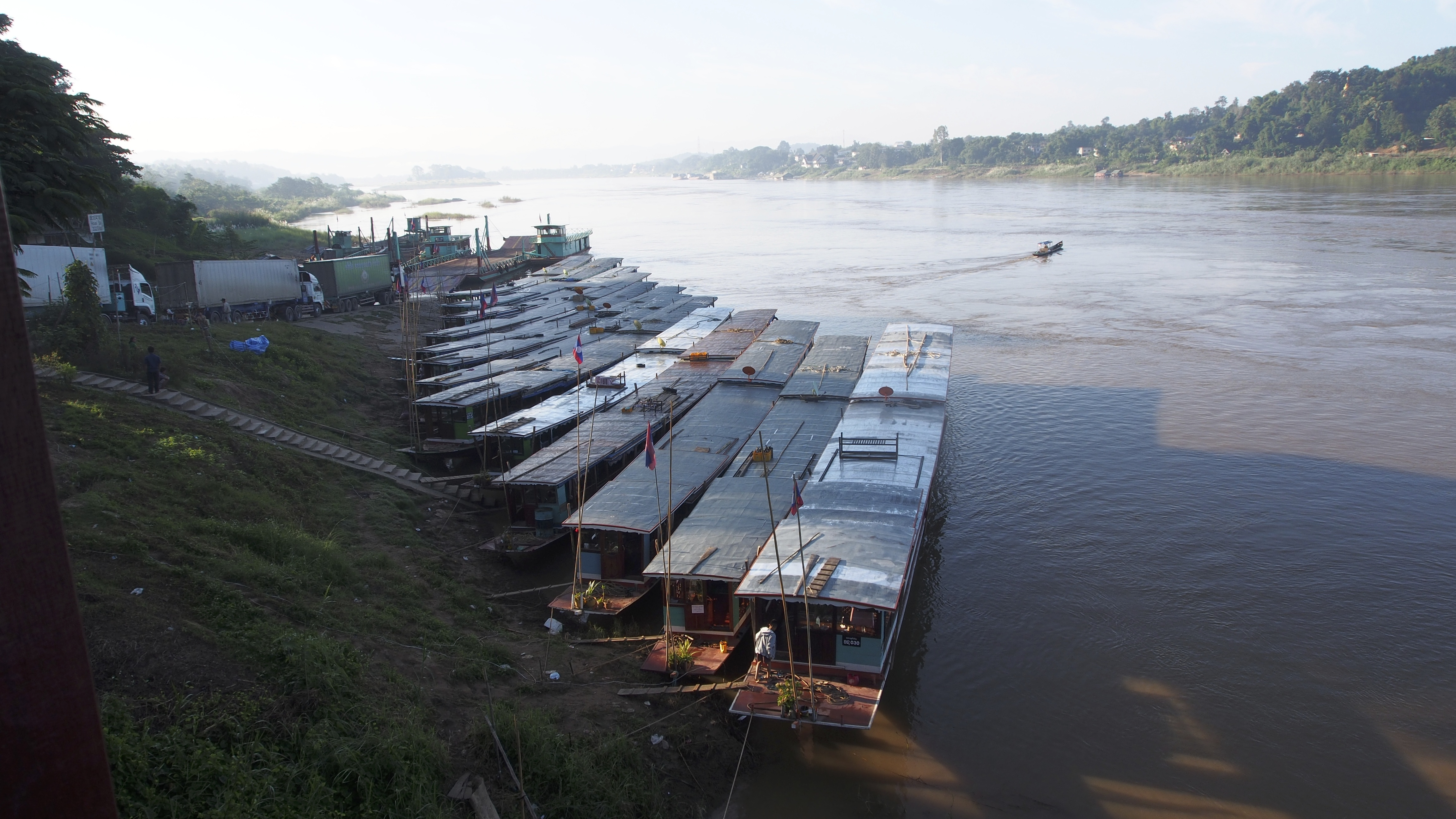 This is the destination of the two day boat trip from Luang Prabang to the Thai border. Until very recently the only way to cross from Laos to Thailand was via the small river ferries. With the opening of the Friendship Bridge all this has changed. These are the river boats that brought passengers from Pakbeng the previous day.